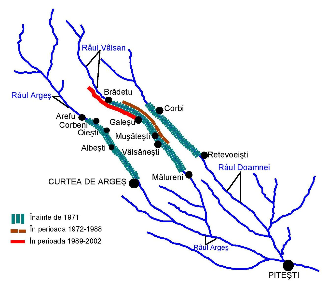 Romanichthys valsanicola. Map